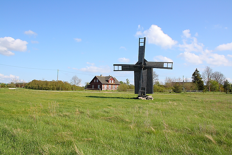 Windmill in Rälby village. Vormsi island, Estonia.